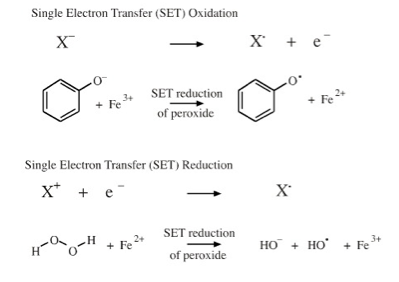 fdsafas